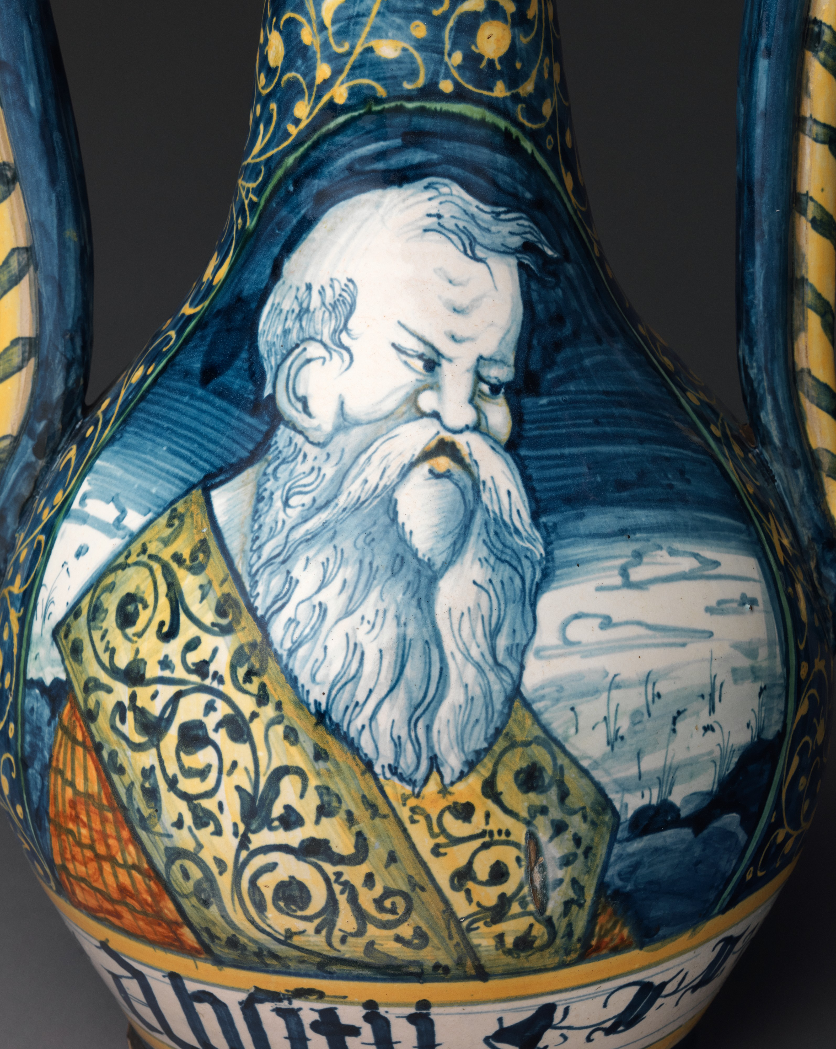 Italian, Castelli; Pharmacy bottle; Ceramics-Pottery